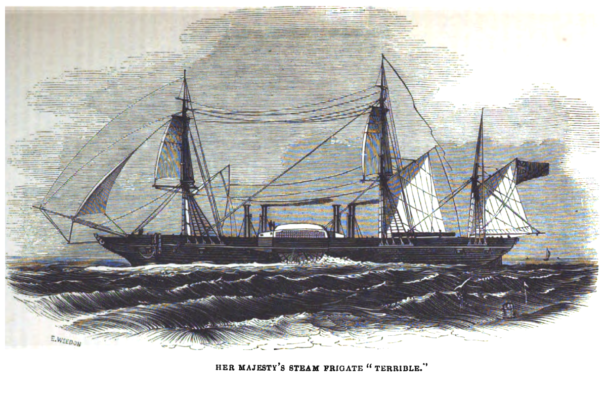 Engraving of the paddle steamer HMS Terrible built in 1845. Engraved in 1845 or before